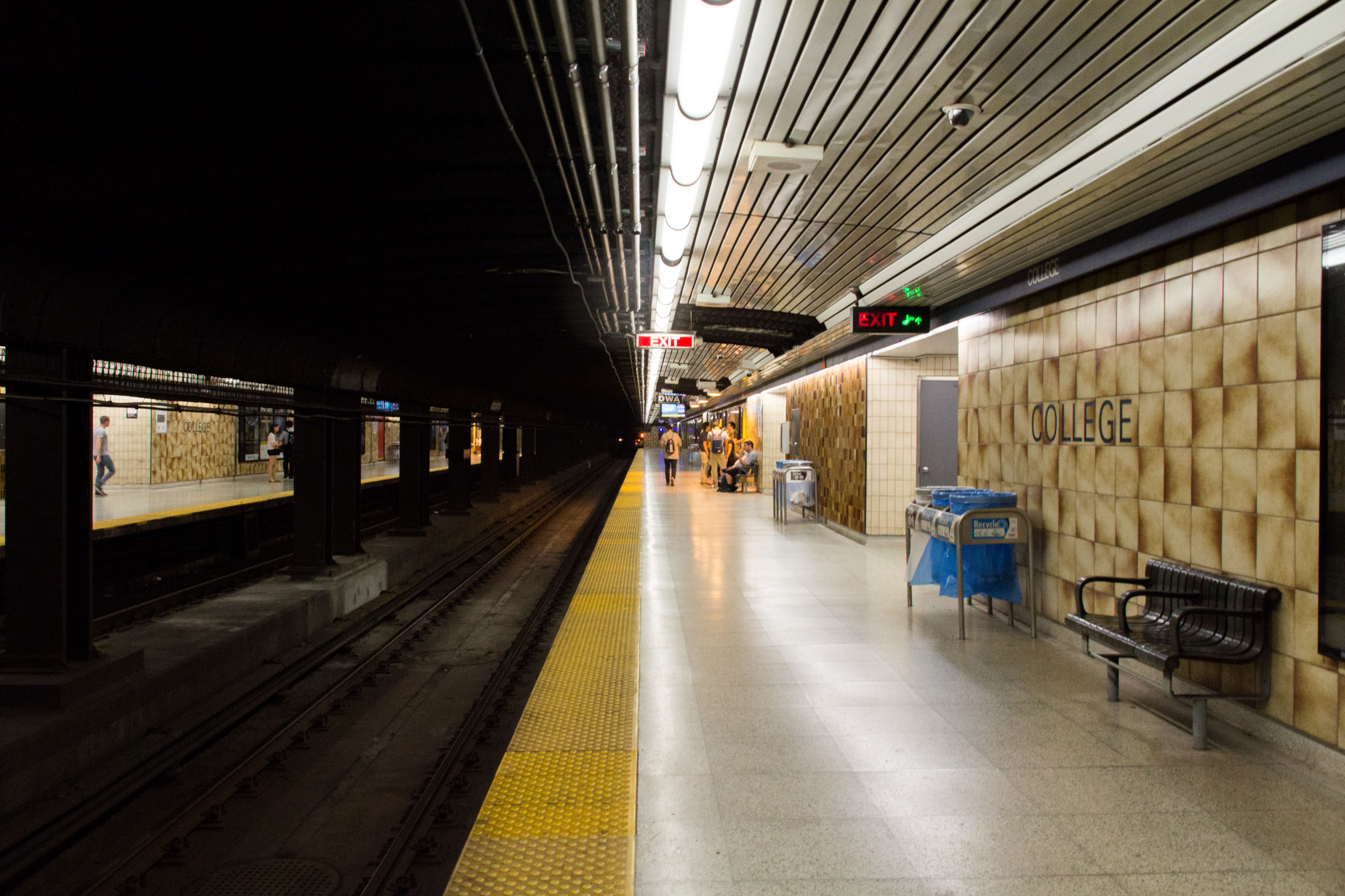 College Platform